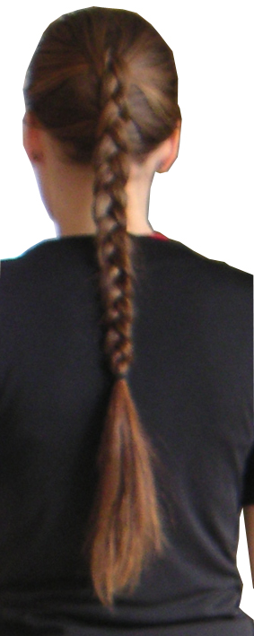 Inverted French Braid.